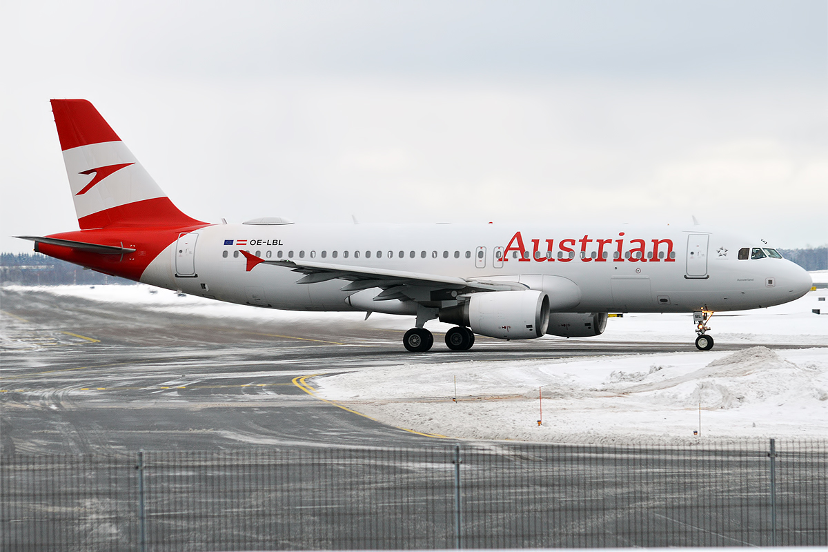 Austrian Airlines, OE-LBL, Airbus A320-214